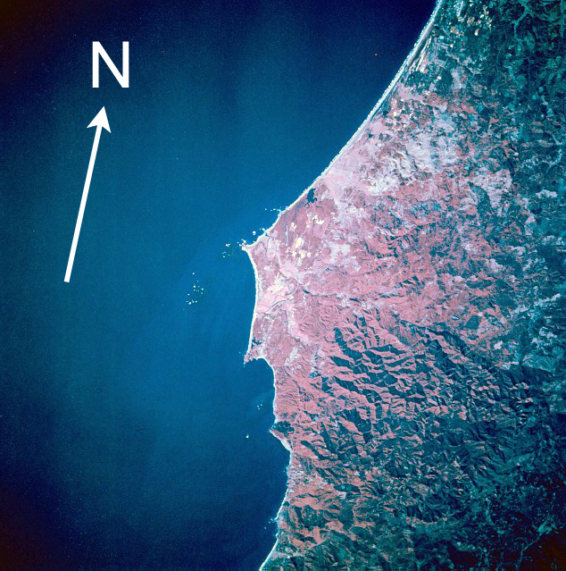 NASA satellite photo of Cape Blanco